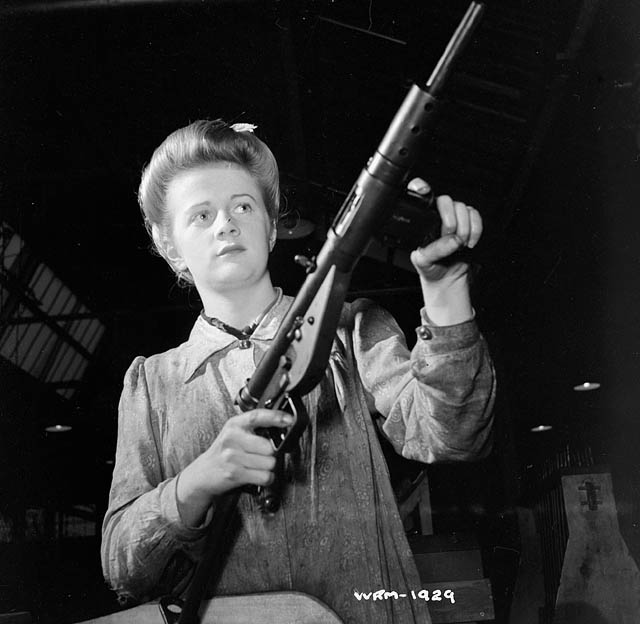 Woman worker poses with finished Sten submachinegun, Small Arms Plant, Long Branch, Ontario, Canada.